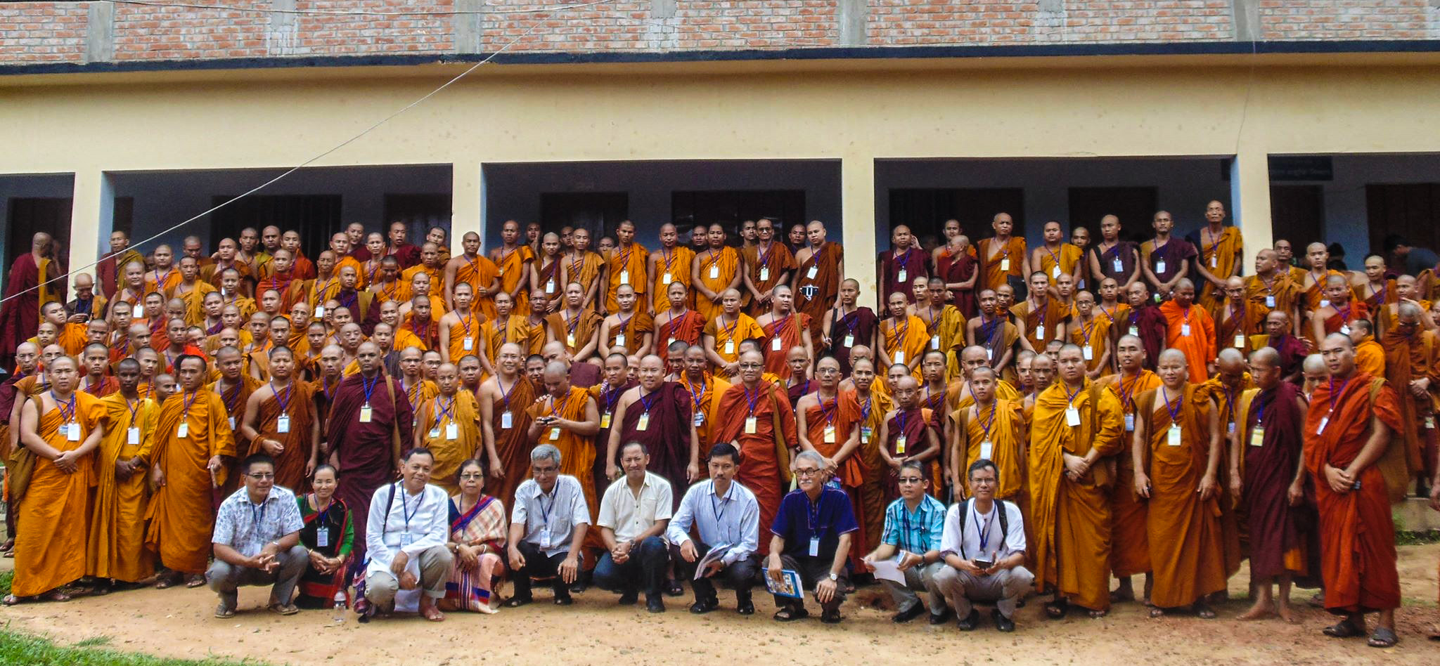 PBSB_Annual_Council_2017